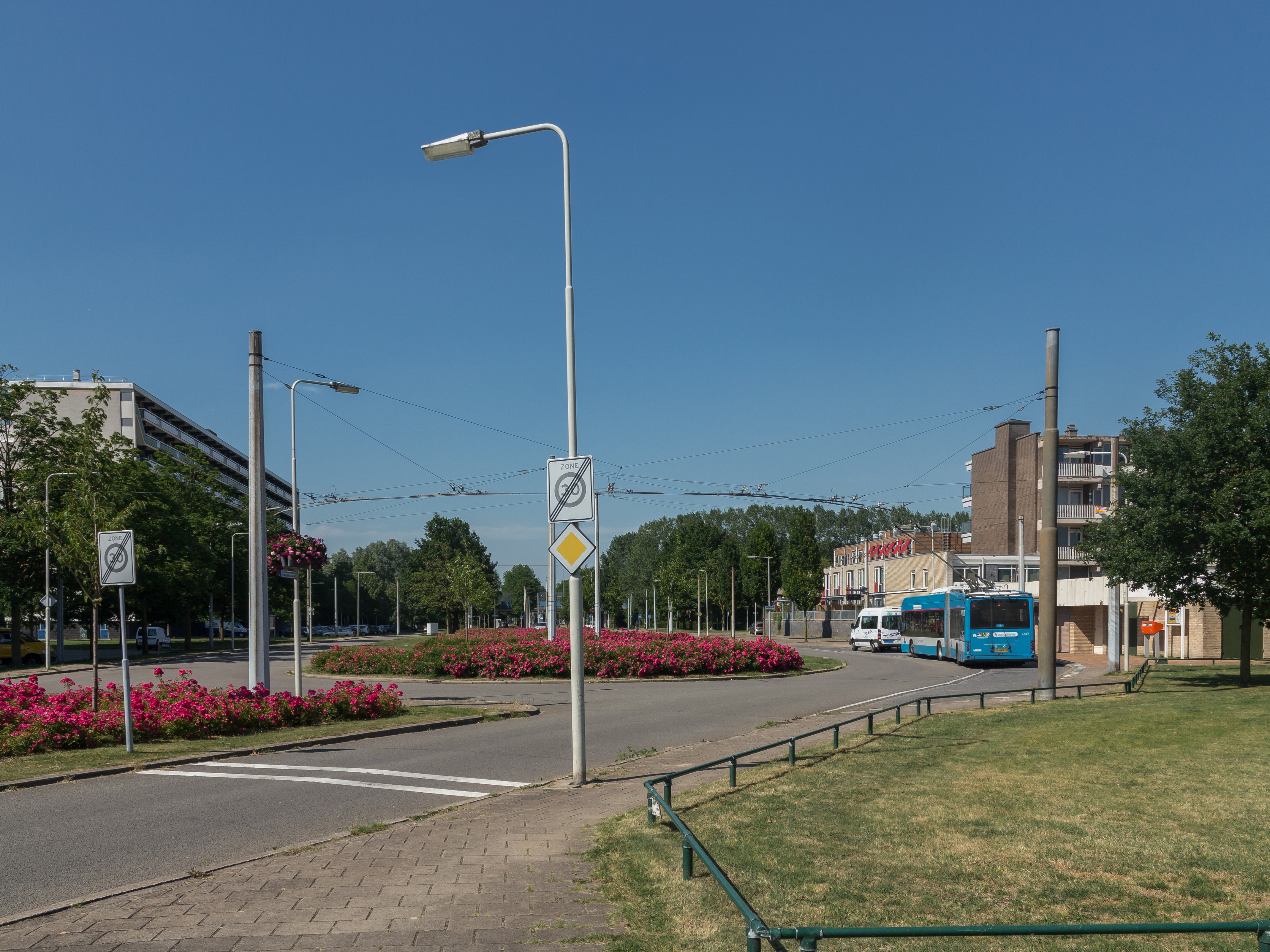 Arnhem-Het Duifje, final stop trolleybus